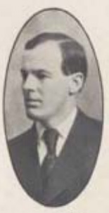 C R Williams, VT